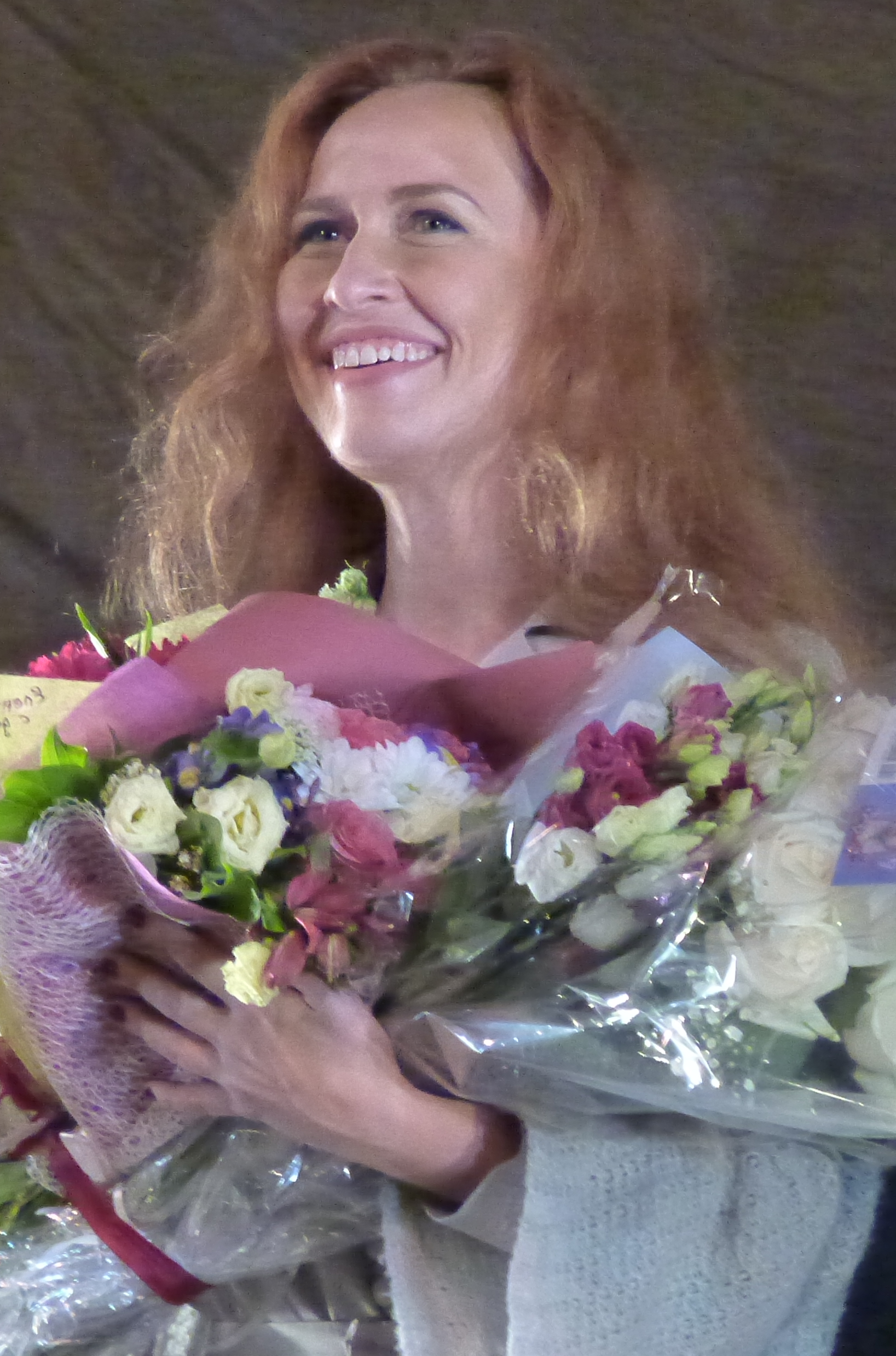 Elena Stikhina , 10 June 2018, Mariinsky Theatre,Saint Petersburg